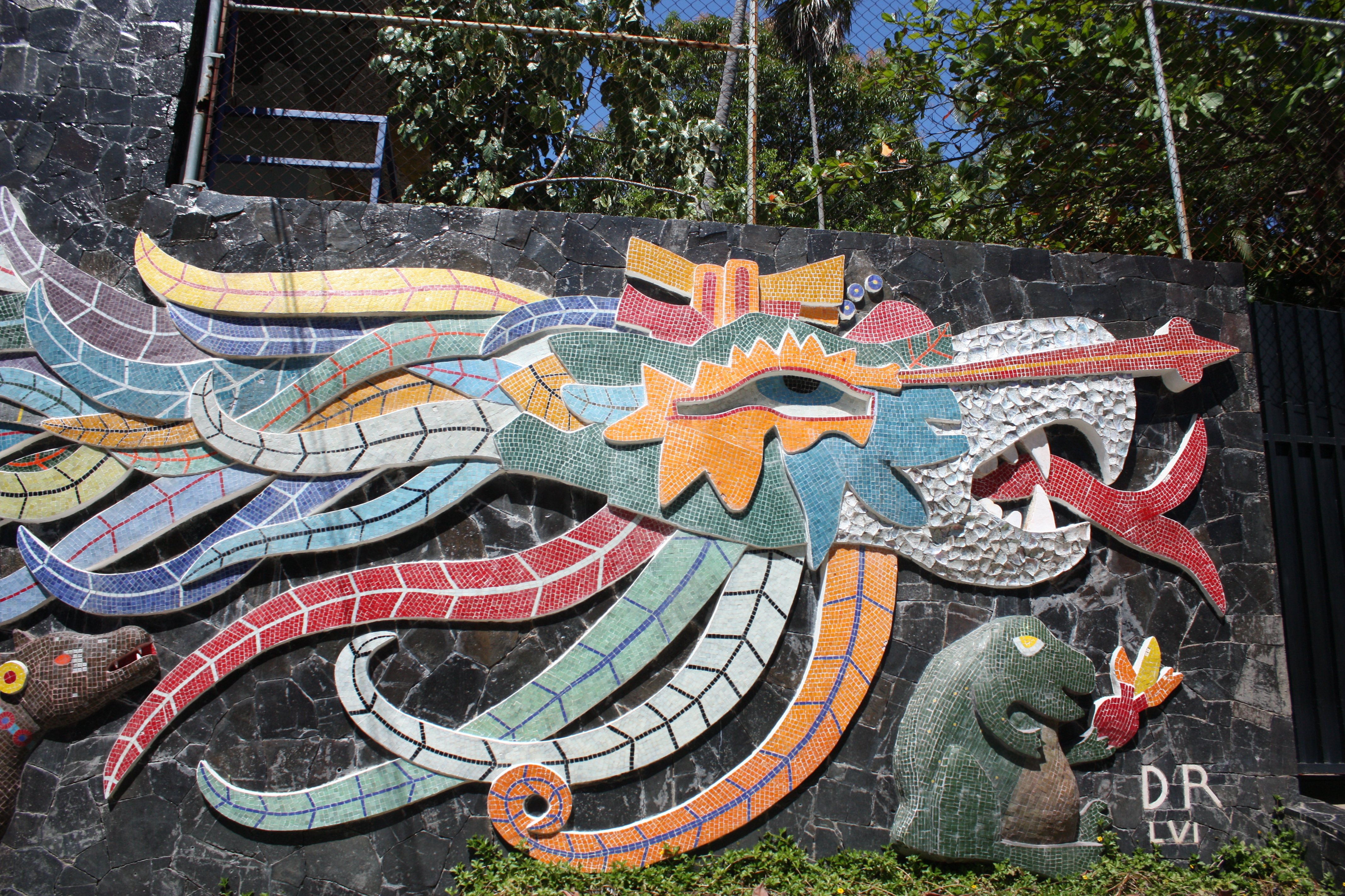 Shots from sailing in and out of Acapulco and stops on the Rosie Tour of Acapulco